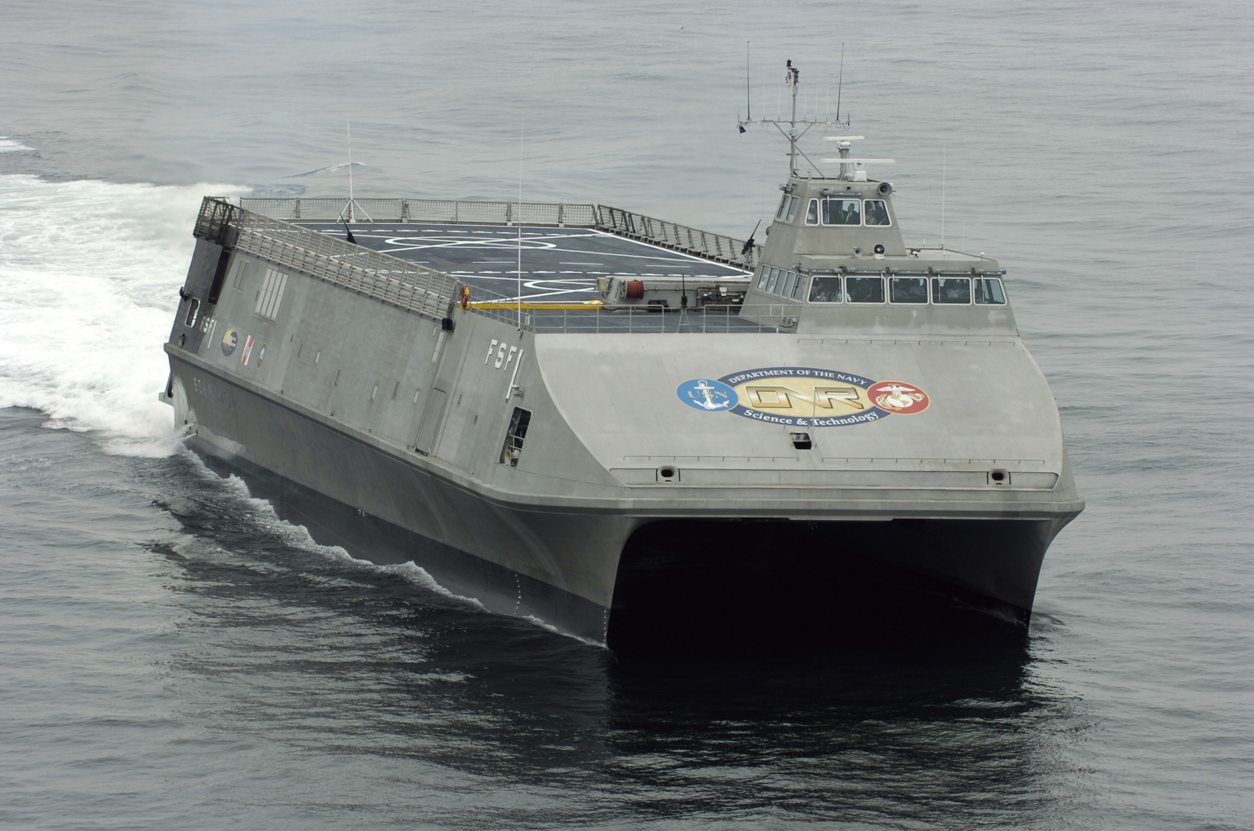 Pacific Ocean (Aug. 1, 2005) - The Littoral Surface Craft-Experimental LSC(X), developed by the Office of Naval Research and christened Sea Fighter (FSF 1), arrives at her new homeport of San Diego Calif. The high-speed aluminum catamaran will test a variety of technologies that will allow the Navy to operate in littoral waters. With a base crew of 26 people, Sea Fighter will also provide a platform for the evaluation of minimum manning concepts on future naval surface ships. U.S. Navy photo by Mr. John F. Williams (RELEASED)